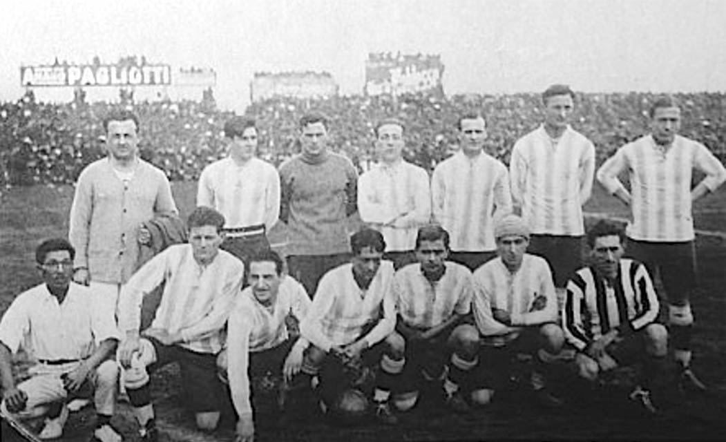 Argentina national football team